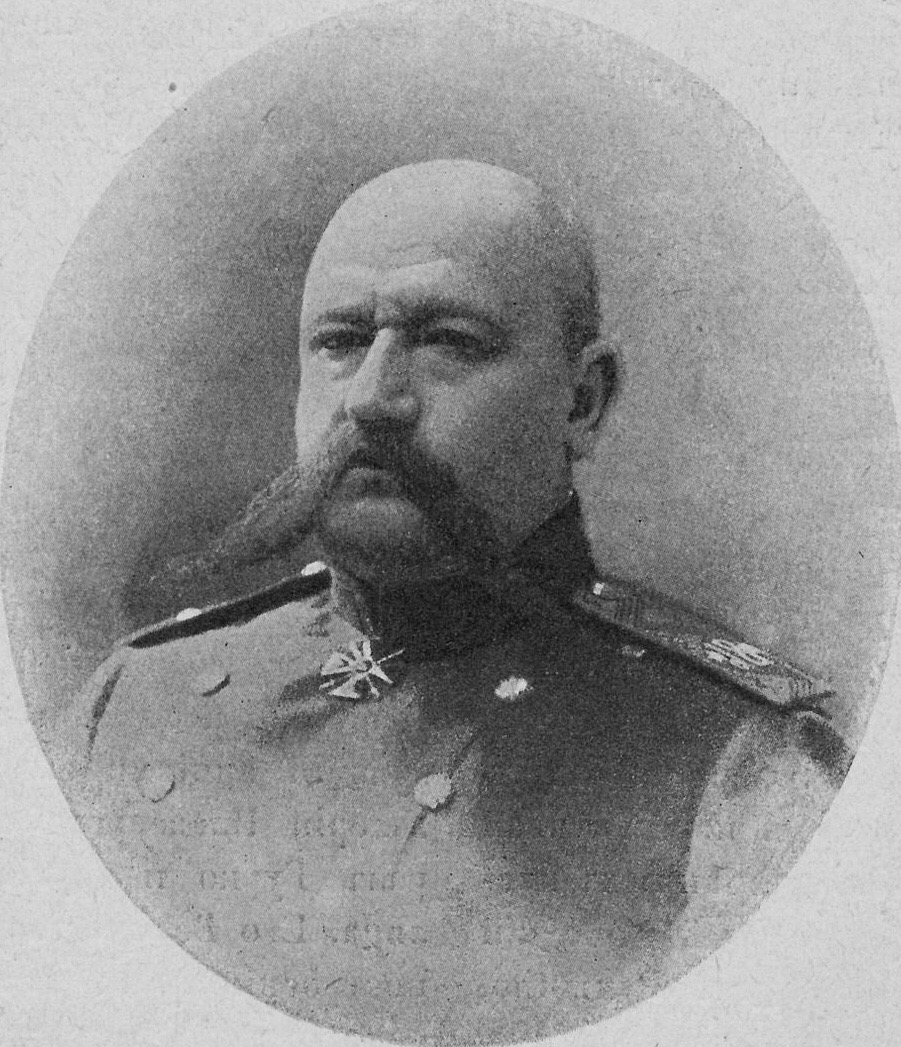 Russian General Yudenich in 1916.